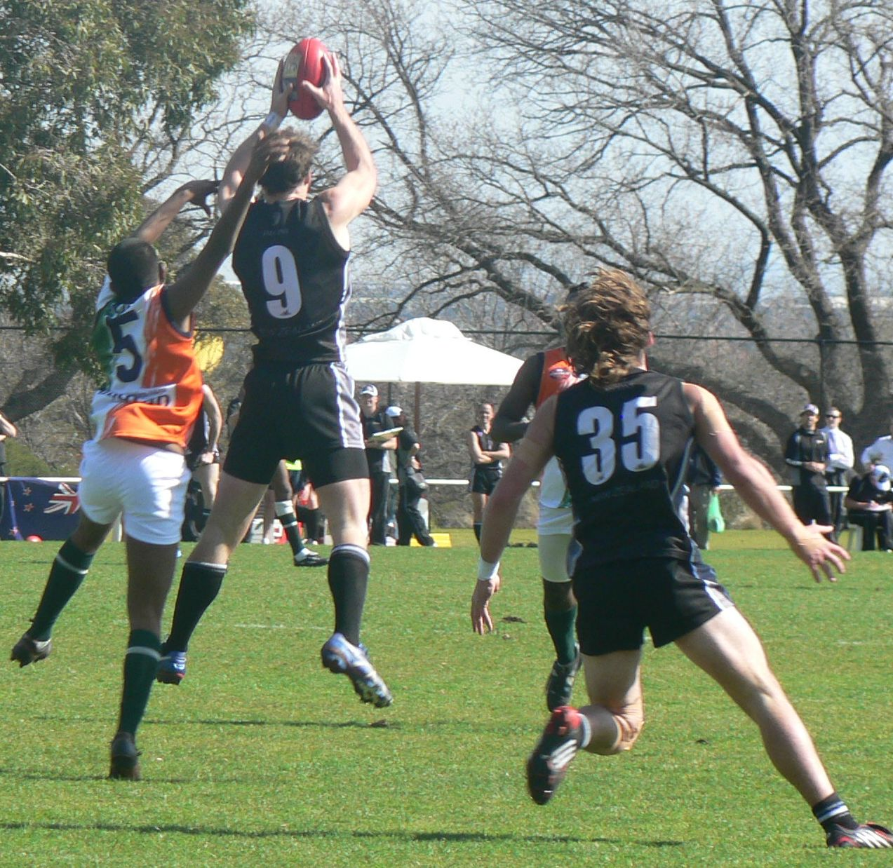 New Zealand captain Andrew Congalton takes a strong mark ahead of an Indian opponent at the 2008 International Cup